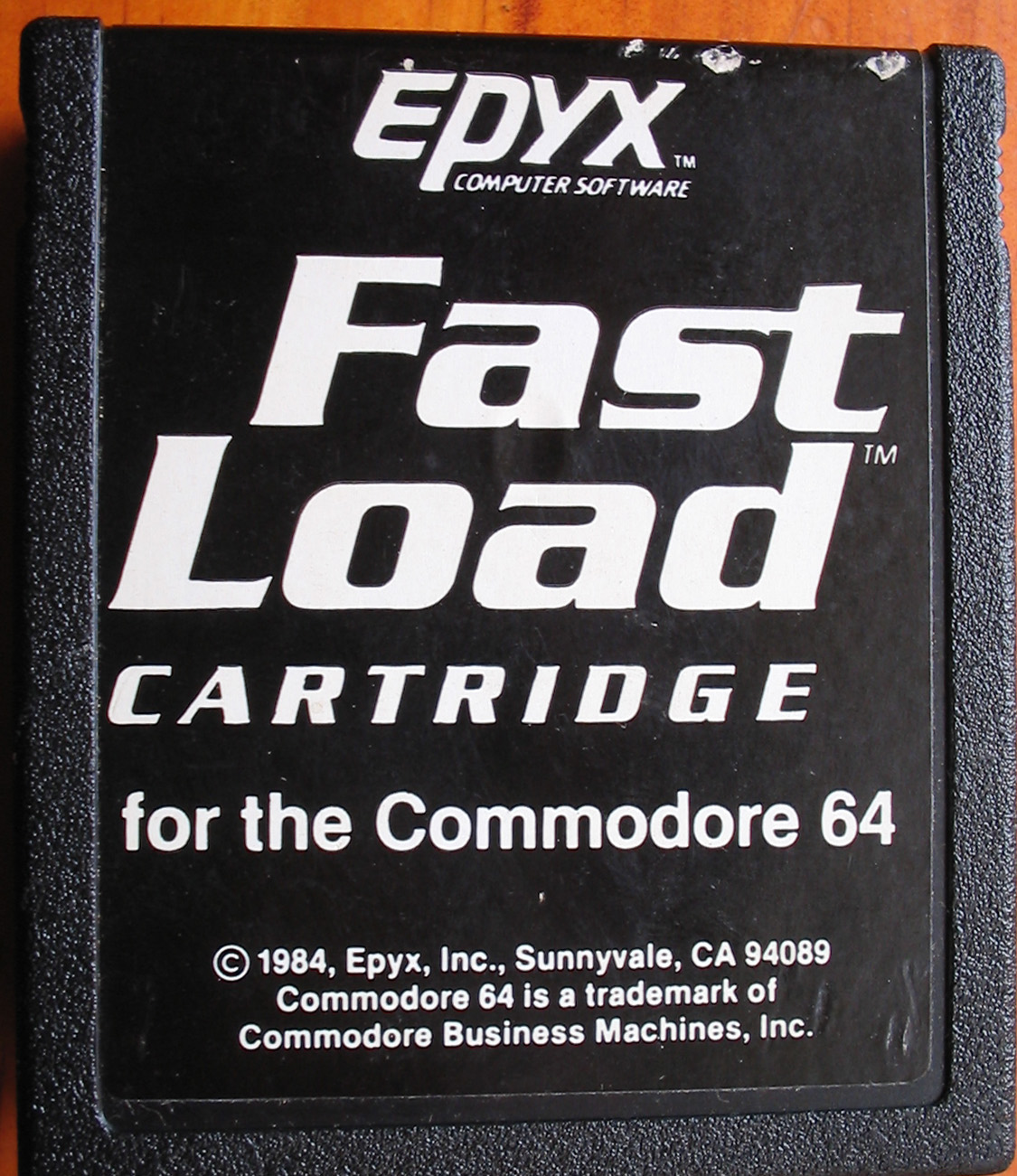 I took this photo today (December 28, 2005) to replace the previous photo of the Epyx FastLoad cartrdige. While still imperfect, this image is higher res and much clearer.